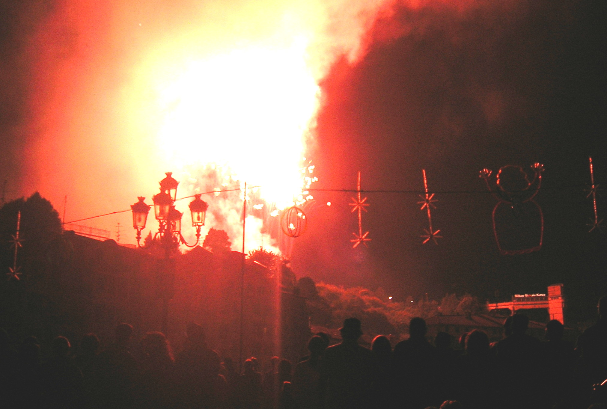 People in Bilbao Town Hall Bridge watching fireworks by Pirotecnia Pirofantasía (Valencia), for the XVI Villa de Bilbao International Contest, during the Aste Nagusia festival of 2006.